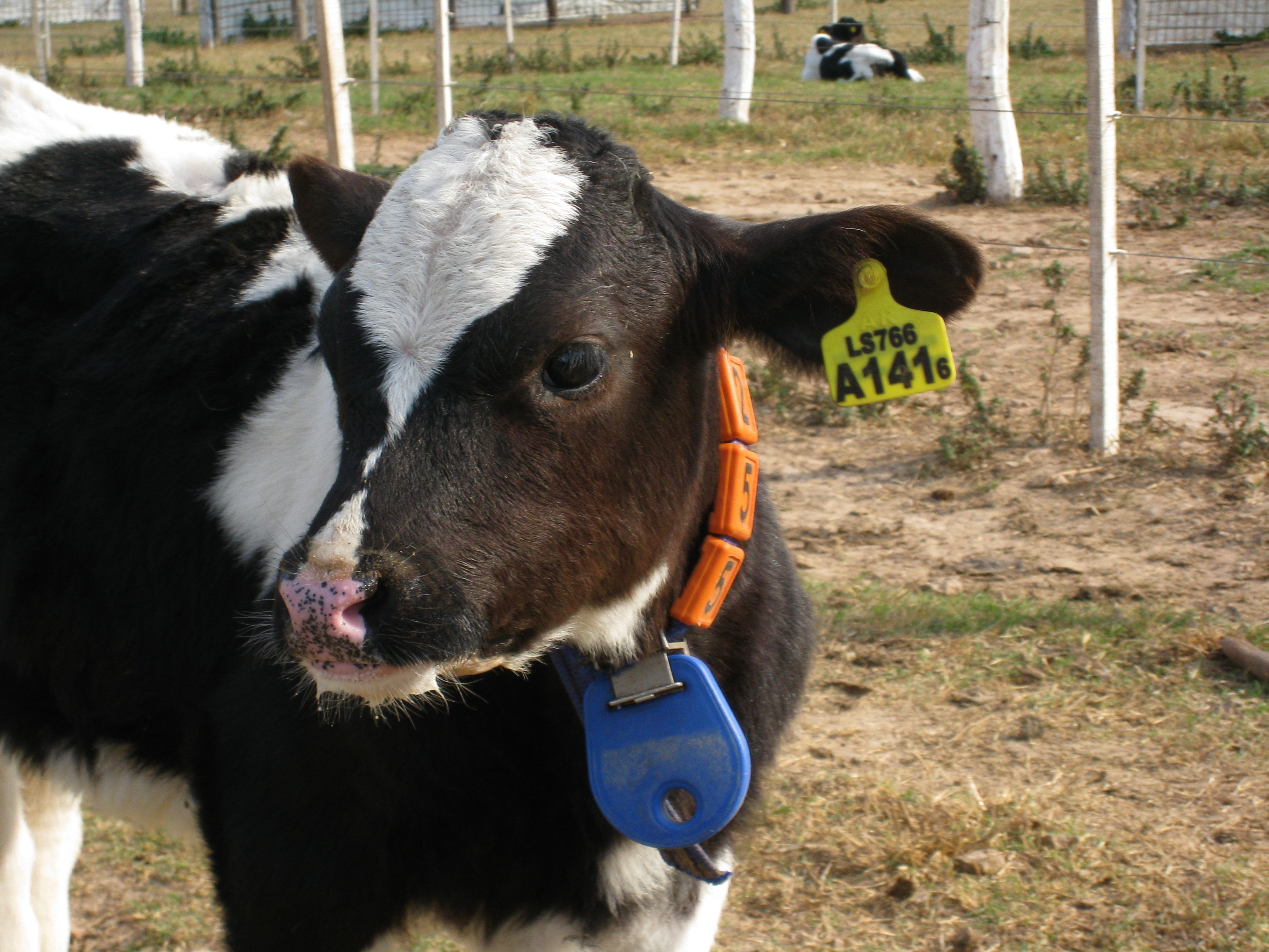 A calf with eartag and transponder in Agentina